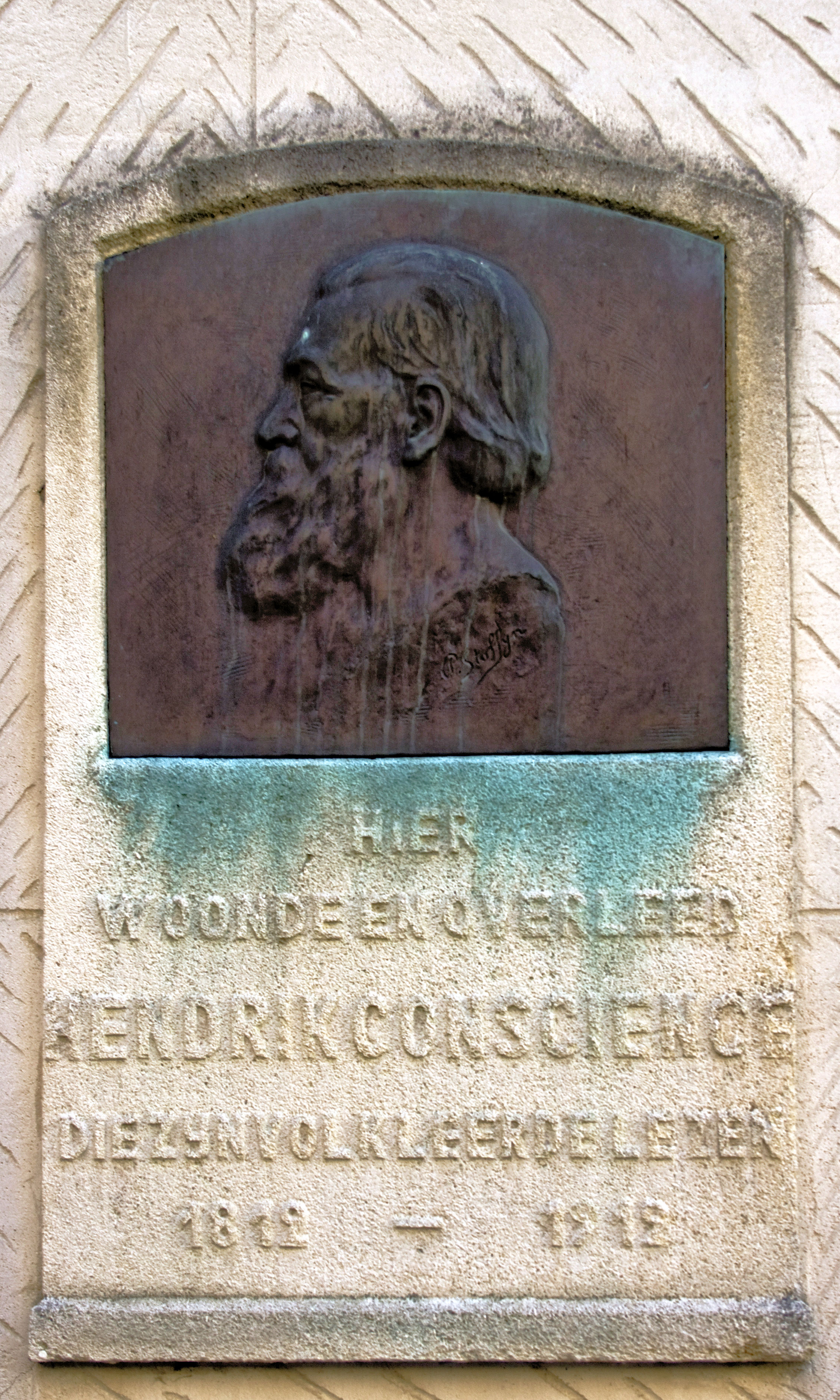 Memorial table of Hendrik_Conscience on the wall of the Wiertz Museum